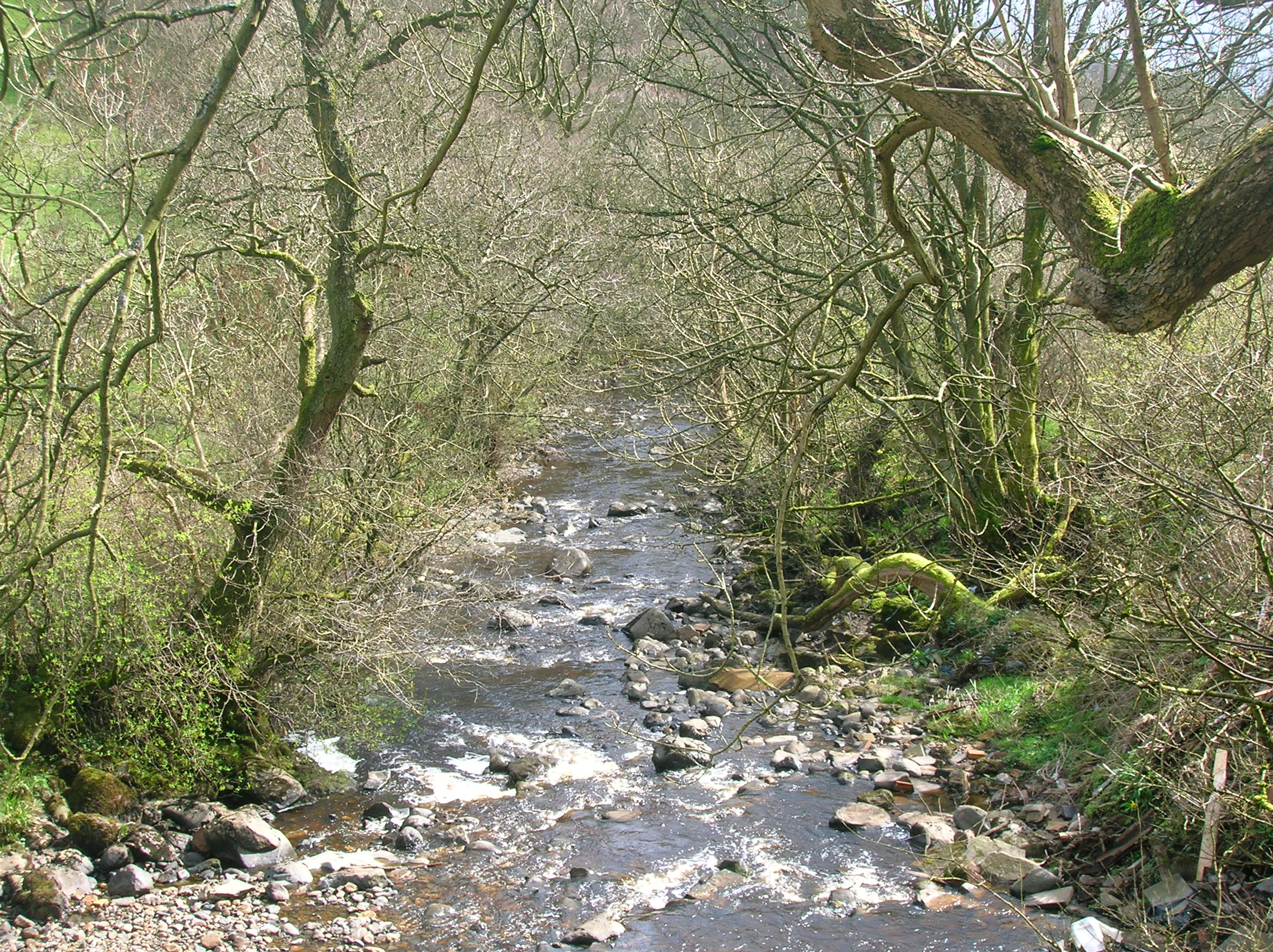 The Glen Water at Law Bridge in Darvel, East Ayrshire, Scotland.